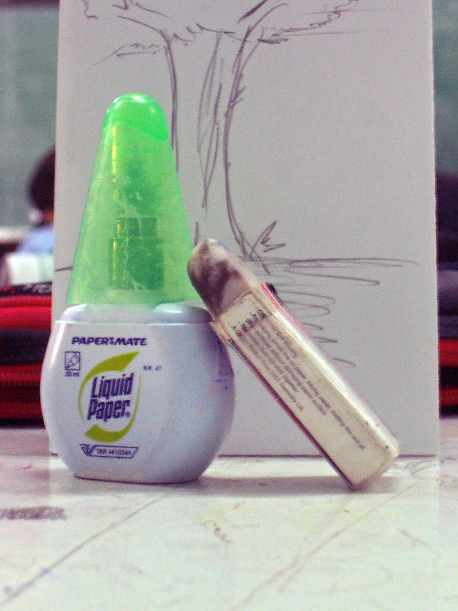 liquid paper (A bottle correction fluid), picture and eraser - Nakhon Sawan, Thailand